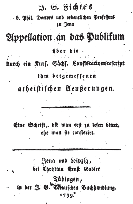 Title page of Johann Gottlieb Fichte, Appellation an das Publikum (1799)